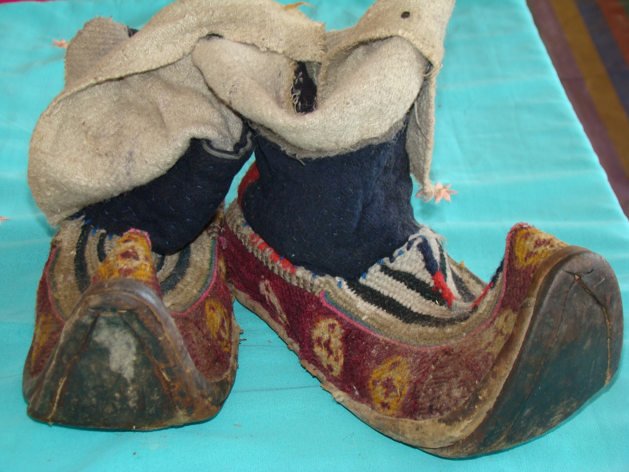 Tradiotnal ladakhi, mangolian, tibetan shoes - local name Papu 17th century